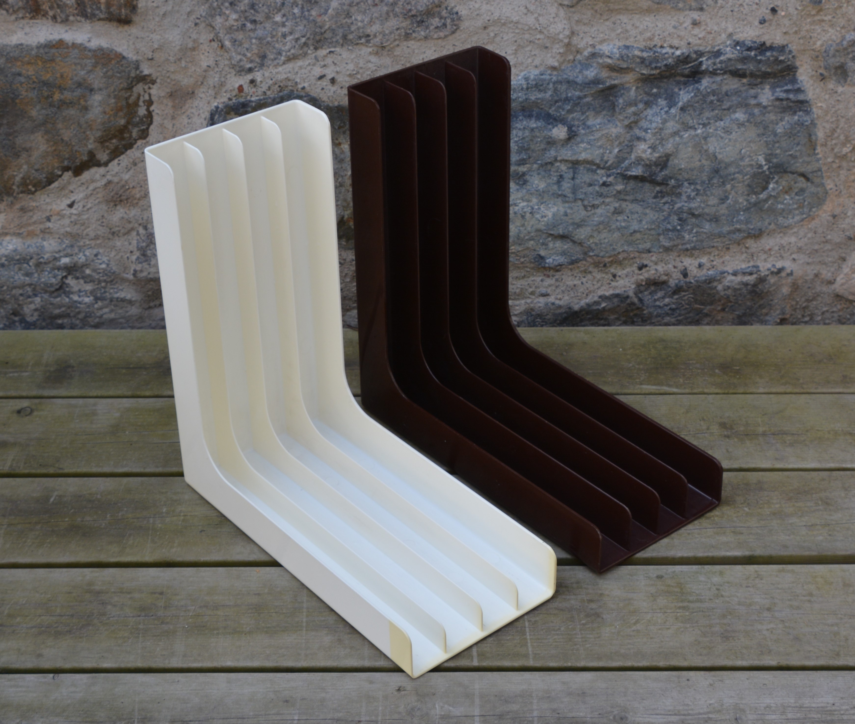 Sven-Eric Juhlin LP-ställ med 4 fack för 32 LP-skivor. 32 x 32 x 15 cm. I produktion 1970-79, Gustavsberg.